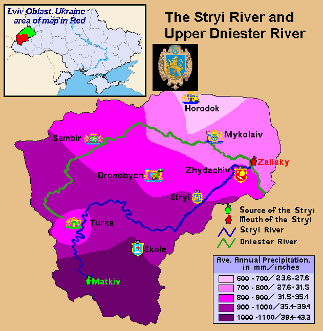 This is a map showing the Upper Dniestr River Basin, including its main tributary, the Stryi River, in the southwestern half of the Lviv Oblast in western Ukraine. It also shows the average annual precipitation by millimeters and inches for the region, and places the administrative centers of each of the raions in this area on the map. It includes and inset indicating where this is in relation to the rest of Ukraine, and provides the names of the closest villages to the Stryi River's head and mouth. I created this map, using Microsoft Paint, version 7.0, and borrowing data from Google Earth, and the 21st European Regional Conference 2005 - 15-19 May 2005 - Frankfurt (Oder) and Slubice - Germany and Poland report on "Floods Modeling in the Upper Dnister River Valley", by Ivan Kovalchuk, Andriy Mykhnovych, Volker Ehlert, Jörg Steidl, in conjunction with the Leibniz Centre for Agricultural Landscape Research (ZALF), Germany, and held at the Ivan Franko National University of L’viv, Ukraine, page4. URL